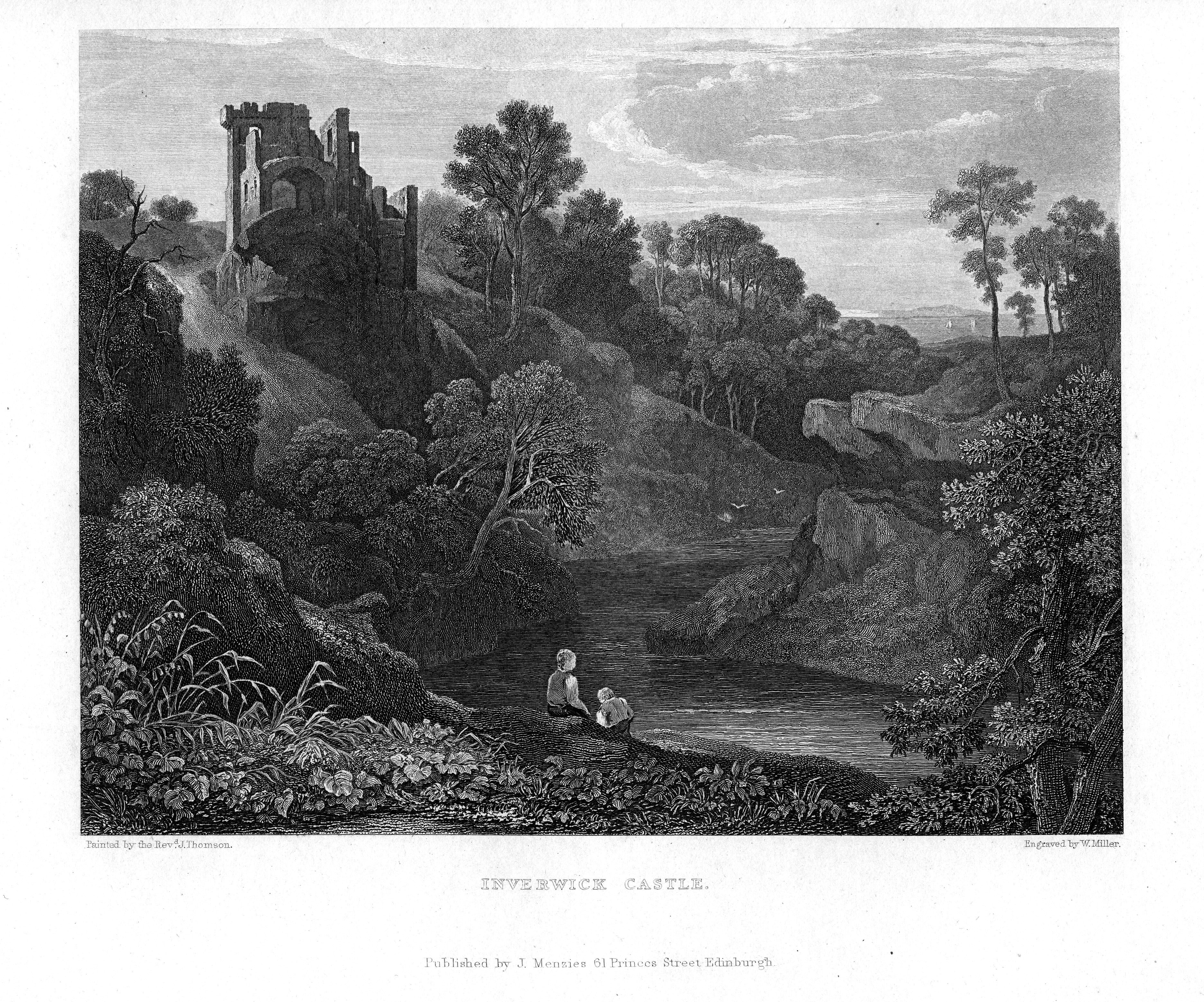 Inverwick Castle. engraving by William Miller after Rev J Thomson (Miller paid £26-5-0 in ix-1822 for engraving), published in Provincial Antiquities and Picturesque Scenery of Scotland, Walter Scott, J M W Turner and others, John and Arthur Arch, London 1826